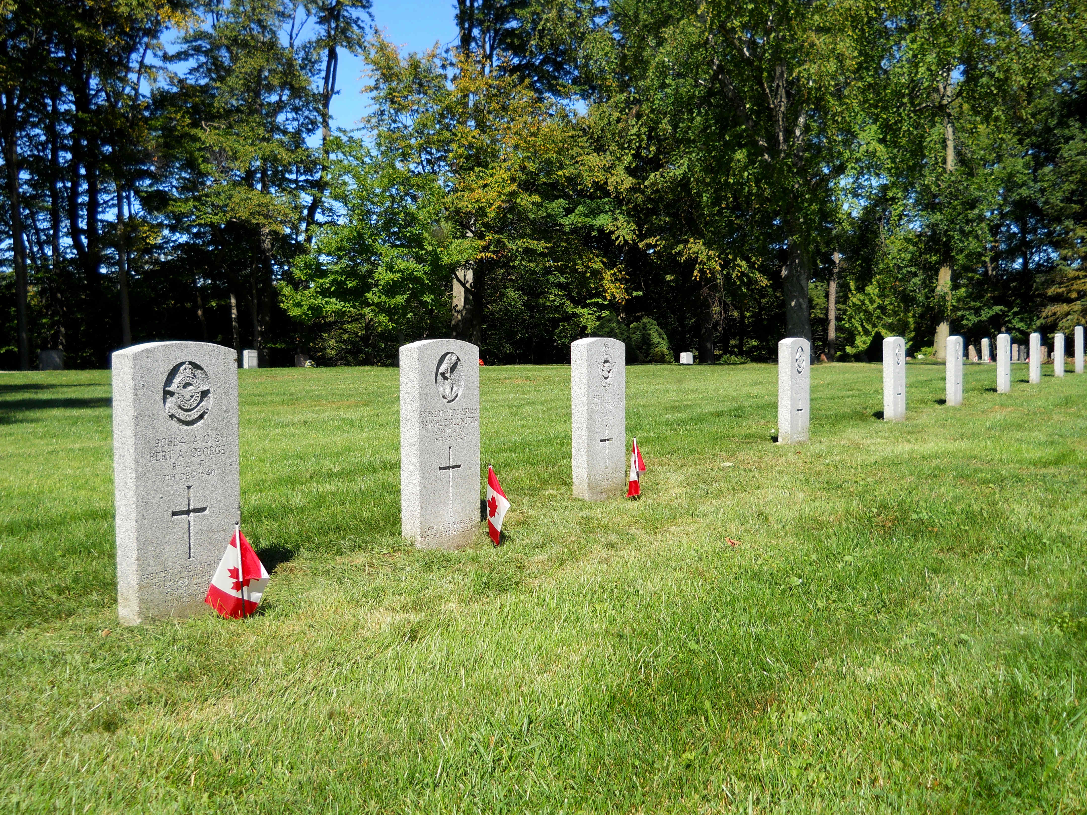 Some of the Commonwealth War Graves in Maitland Cemetery at Goderich, Ontario, Canada. Most of these men were members of the British Royal Air Force or Royal Navy, and died while serving at No. 31 Air Navigation School in Port Albert, Ontario.